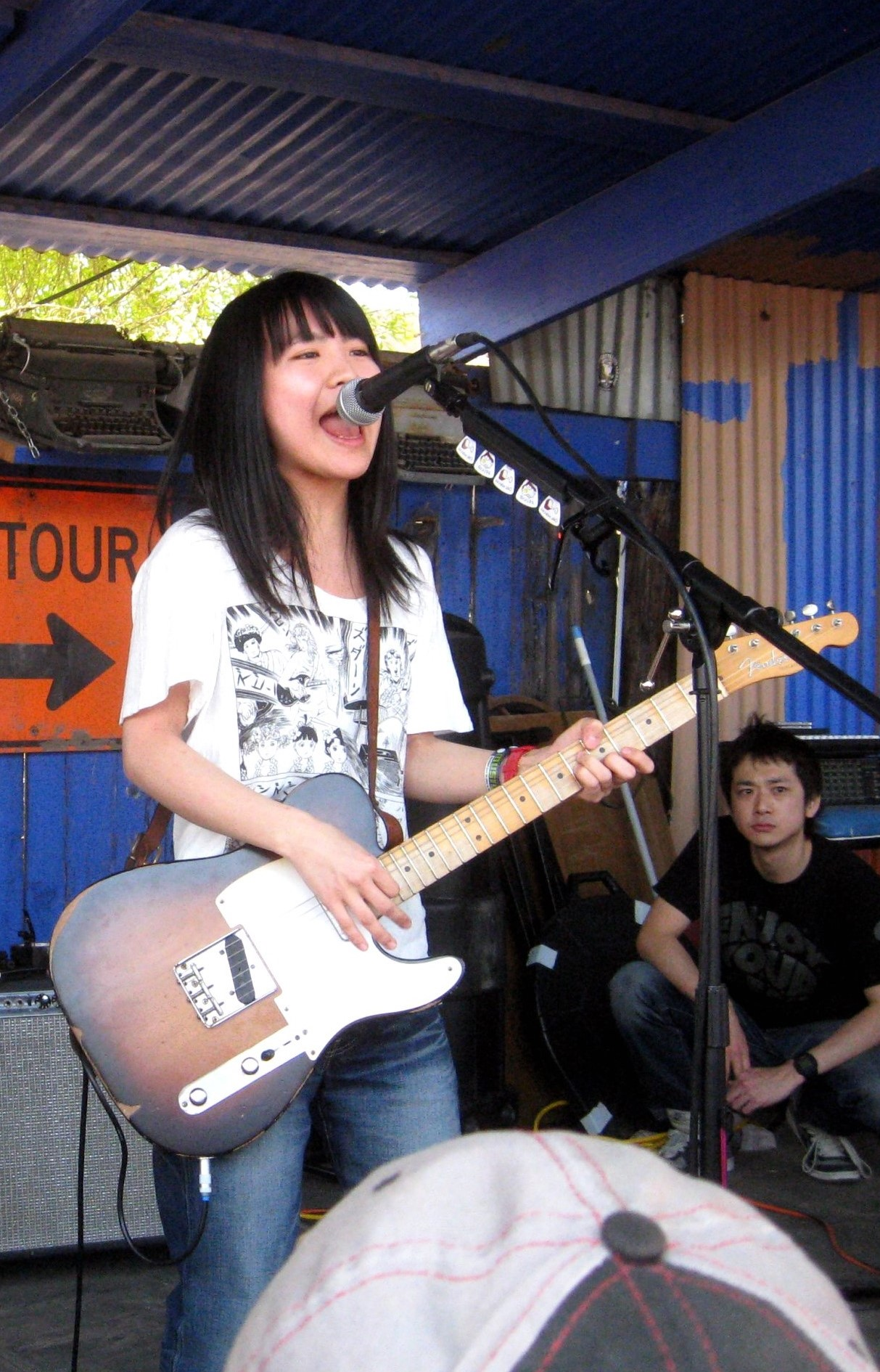 Eriko Hashimoto performing with chatmonchy at the Japan Preview Show in Austin, Texas on March 18, 2010.